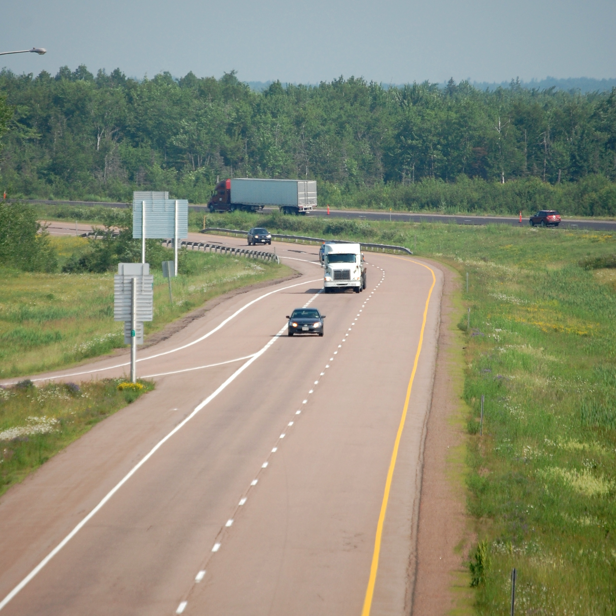 View of Highway 2 (Trans Canada Highway) outside Moncton, New Brunswick